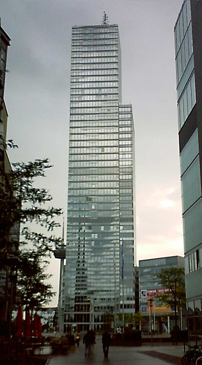 MediaPark Kölnturm, Cologne, Germany